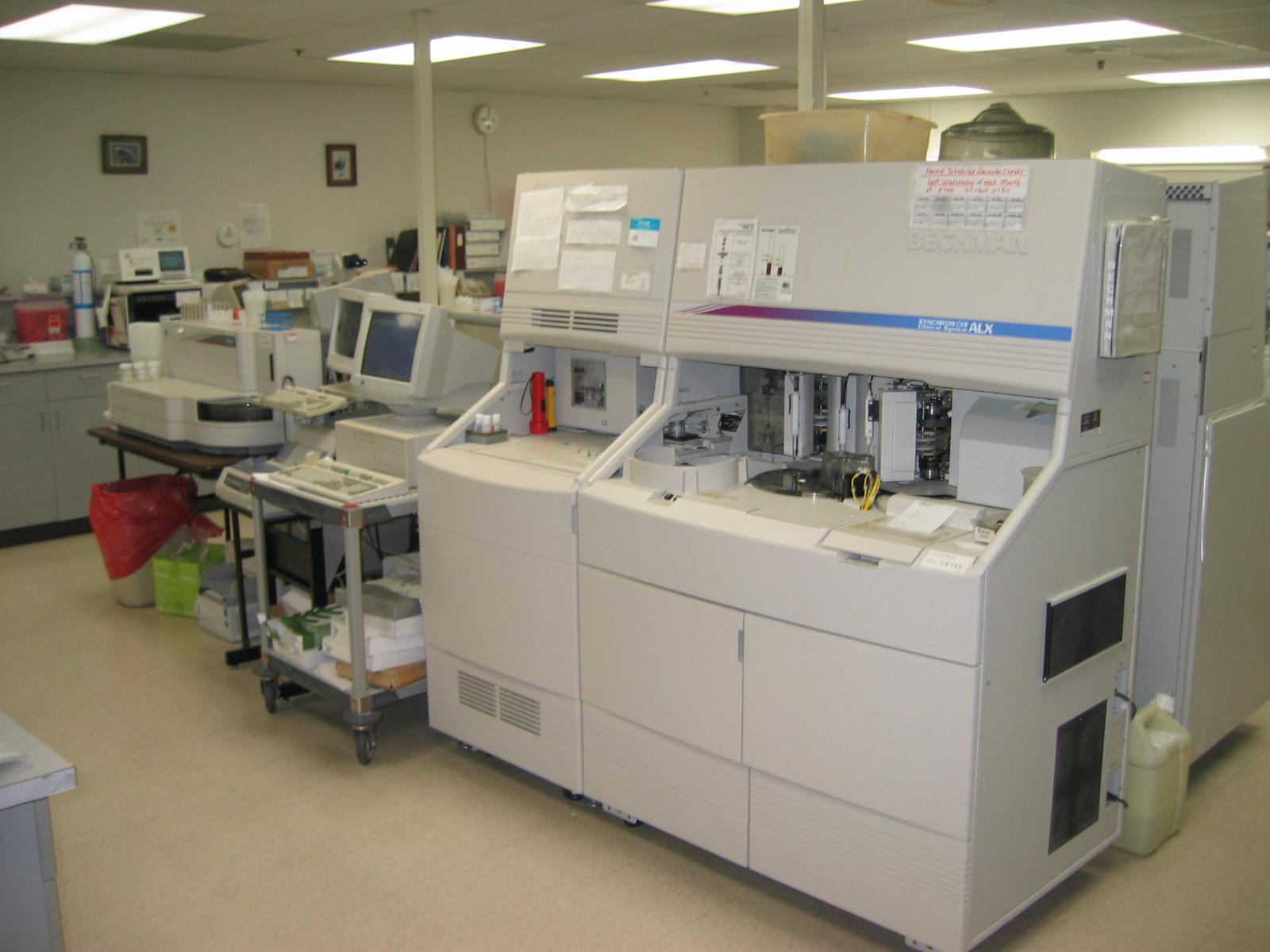 Chemistry analysers: Beckman Coulter Synchron CX9 ALX on the right and Beckman Coulter Access® on the left, as well as a blood gas analyser with the blue screen in the background.